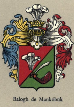 Heraldic work of the Hungarian Nobility during the Austro-Hungarian Monarchy by Count Andrássy.